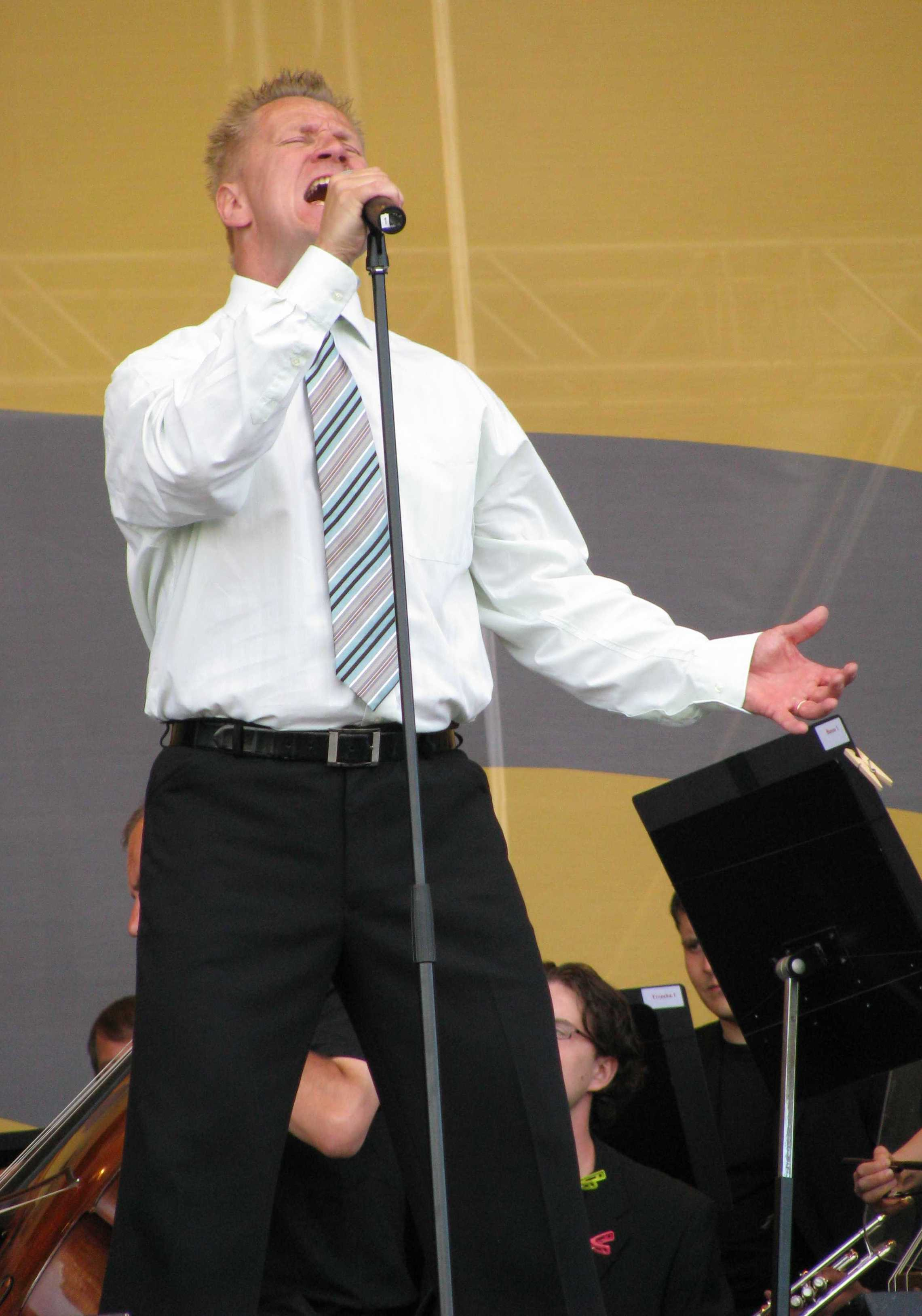 Olli Lindhom in Pori 2008